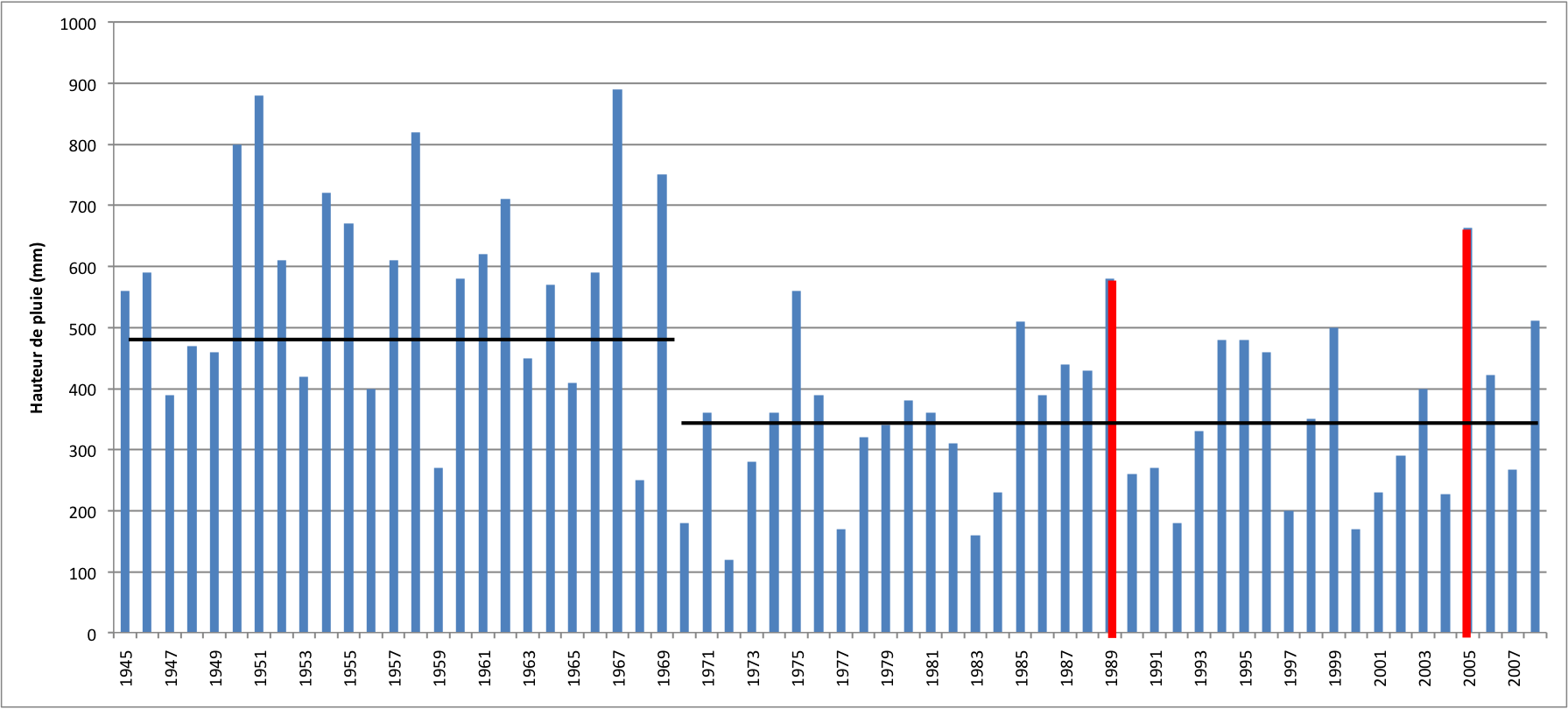 Pluviométrique à la station Grand Yoff, 2009 (ANAMS)